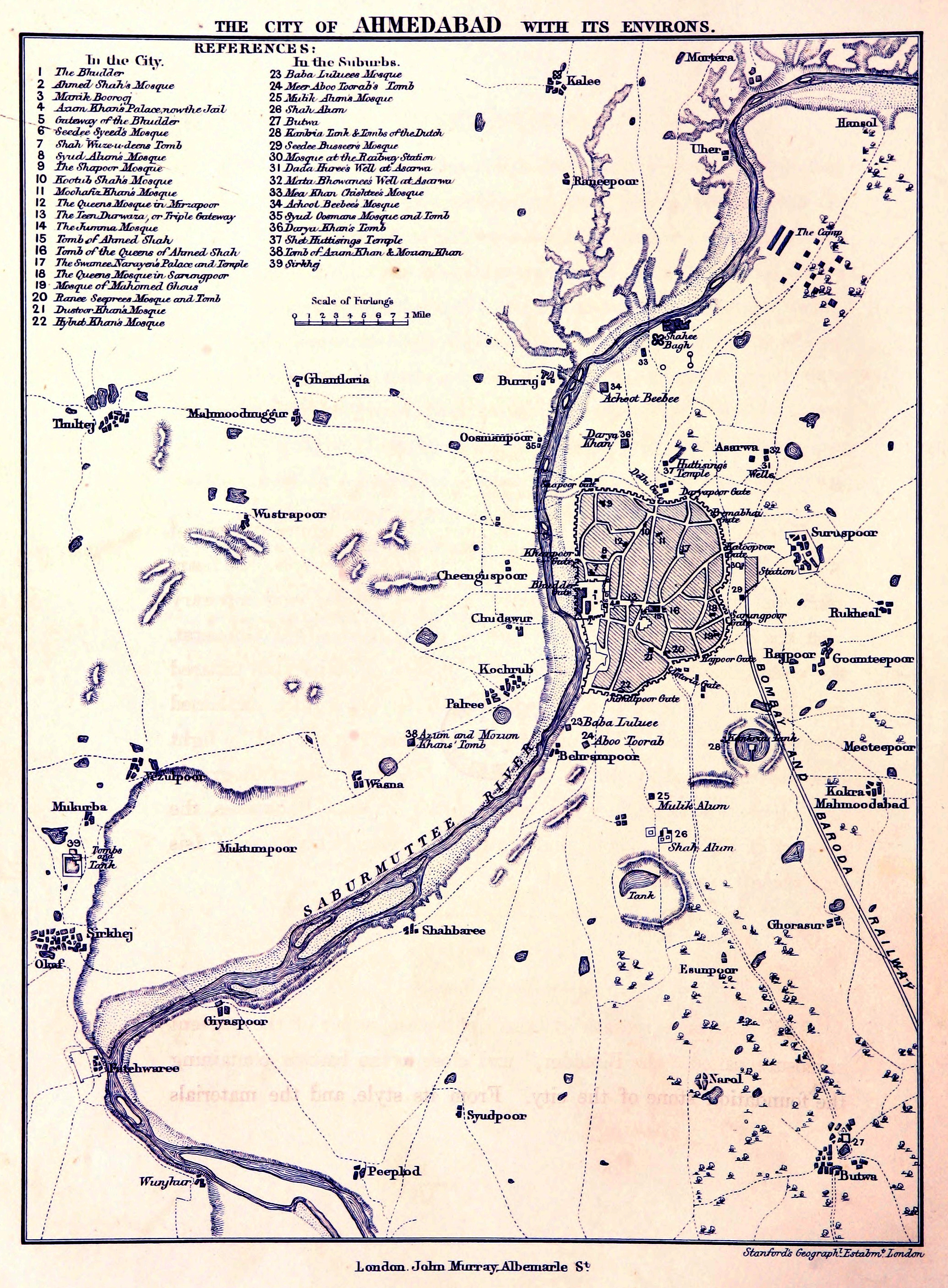 Image taken from: Title: "Architecture at Ahmedabad, the Capital of Goozerat, photographed by Colonel Biggs, ... With an historical and descriptive sketch, by T. C. H., ... and architectural notes by J. Fergusson, etc" Author: HOPE, Theodore Cracraft - Sir, K.C.S.I Contributor: BIGGS, Thomas. Contributor: FERGUSSON, James - Architect Shelfmark: "British Library HMNTS 10057.f.17.", "British Library OC V 6665" Page: 64 Place of Publishing: London Date of Publishing: 1866 Issuance: monographic Identifier: 001730119 Note: The colours, contrast and appearance of these illustrations are unlikely to be true to life. They are derived from scanned images that have been enhanced for machine interpretation and have been altered from their originals. If you wish to purchase a high quality copy of the page that this image is drawn from, please order it here. Please note that you will need to enter details from the above list - such as the shelfmark, the page, the book's volume and so on - when filling out your order. Following this or the link above will take you to the British Library's integrated catalogue. You will be able to download a PDF of the book this image is taken from, as well as view the pages up close with the 'itemViewer'. Click on the 'related items' to search for the electronic version of this work. Click here to see all the illustrations in this book and click here to browse other illustrations published in books in the same year. Please click on the tags shown on the right-hand side for other ways to browse the illustrations.